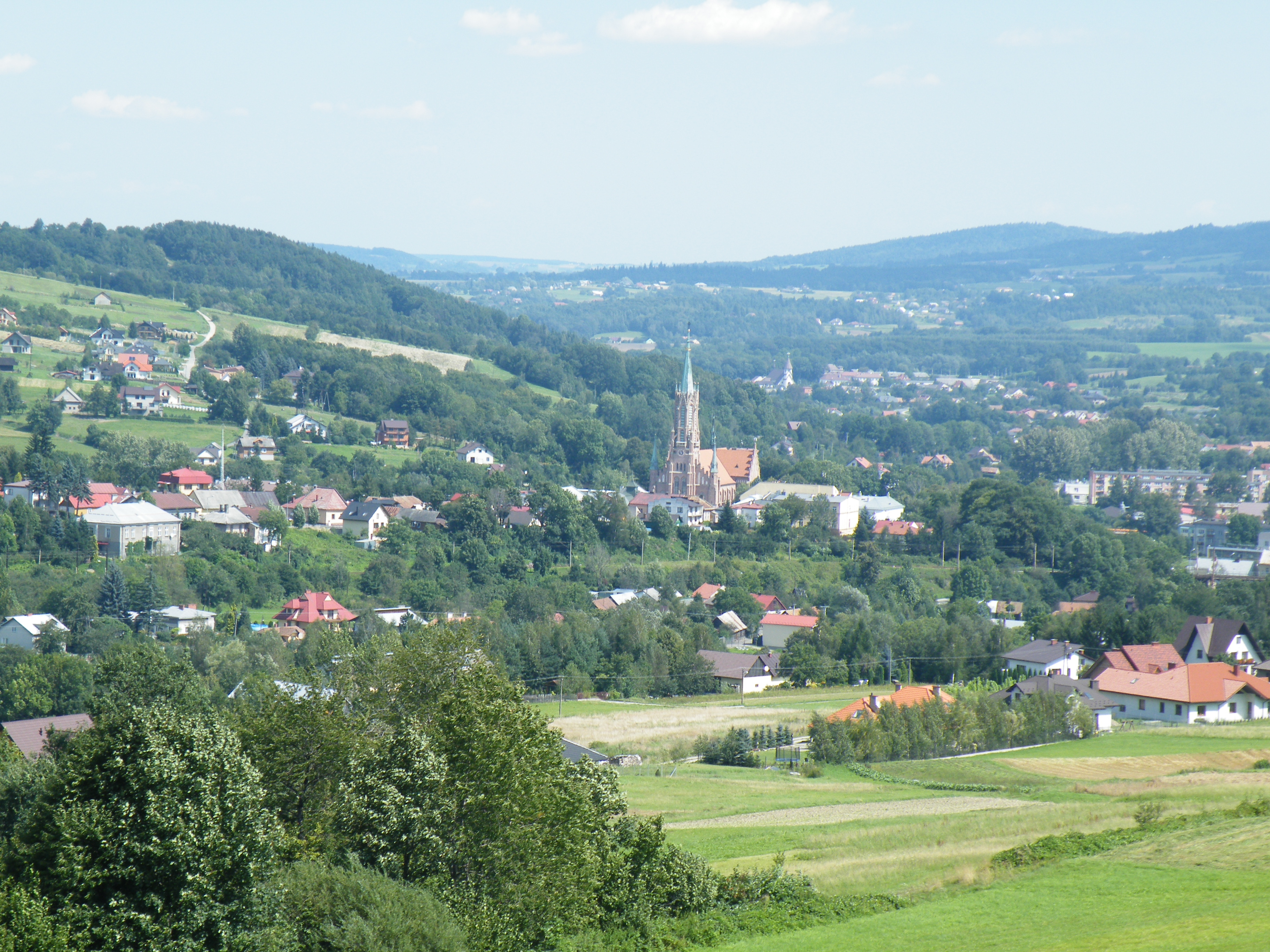 This photo was taken during Railway Wikiexpedition 2014 set up by Wikimedia Polska Association in cooperation with Fundacja Grupy PKP.You can see all photographs in category Wikiekspedycja kolejowa 2014. Panorama na Grybów z linii kolejowej nr 96